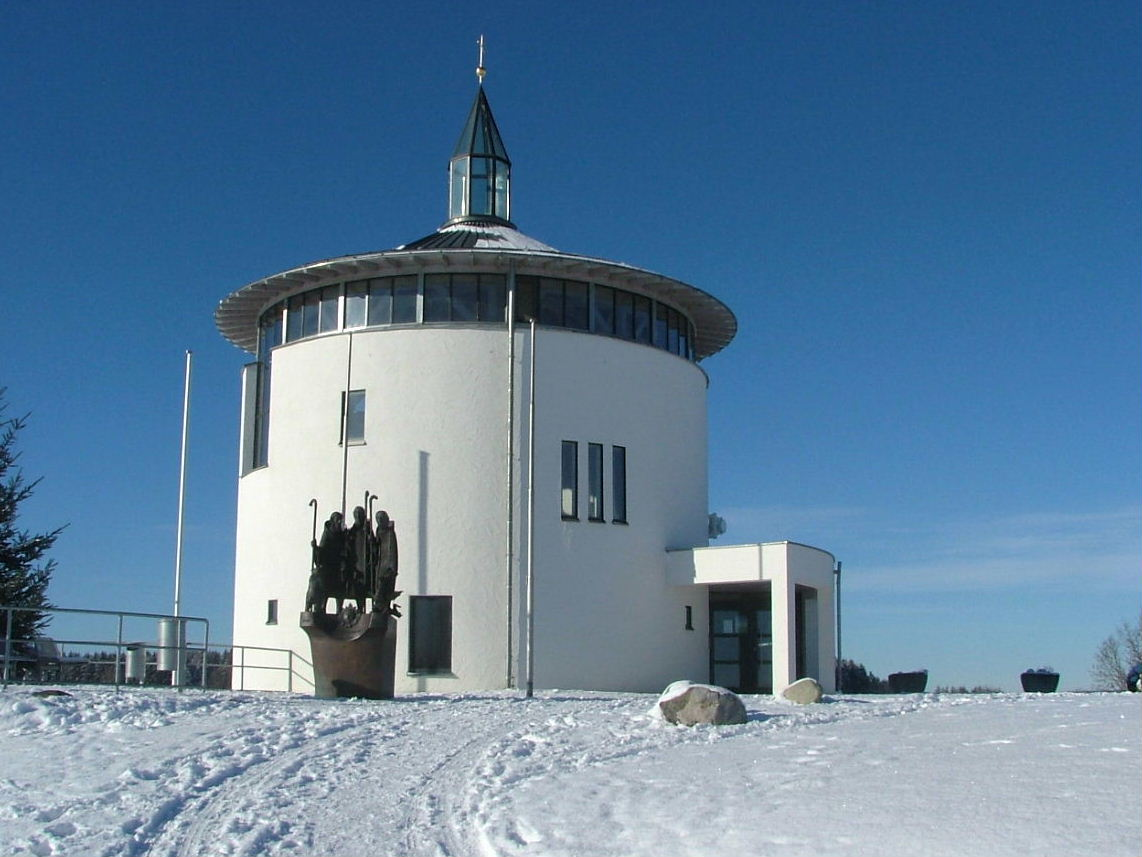 Highway Chapel St. Gallus above the A 96, Leutkirch im Allgäu, Germany